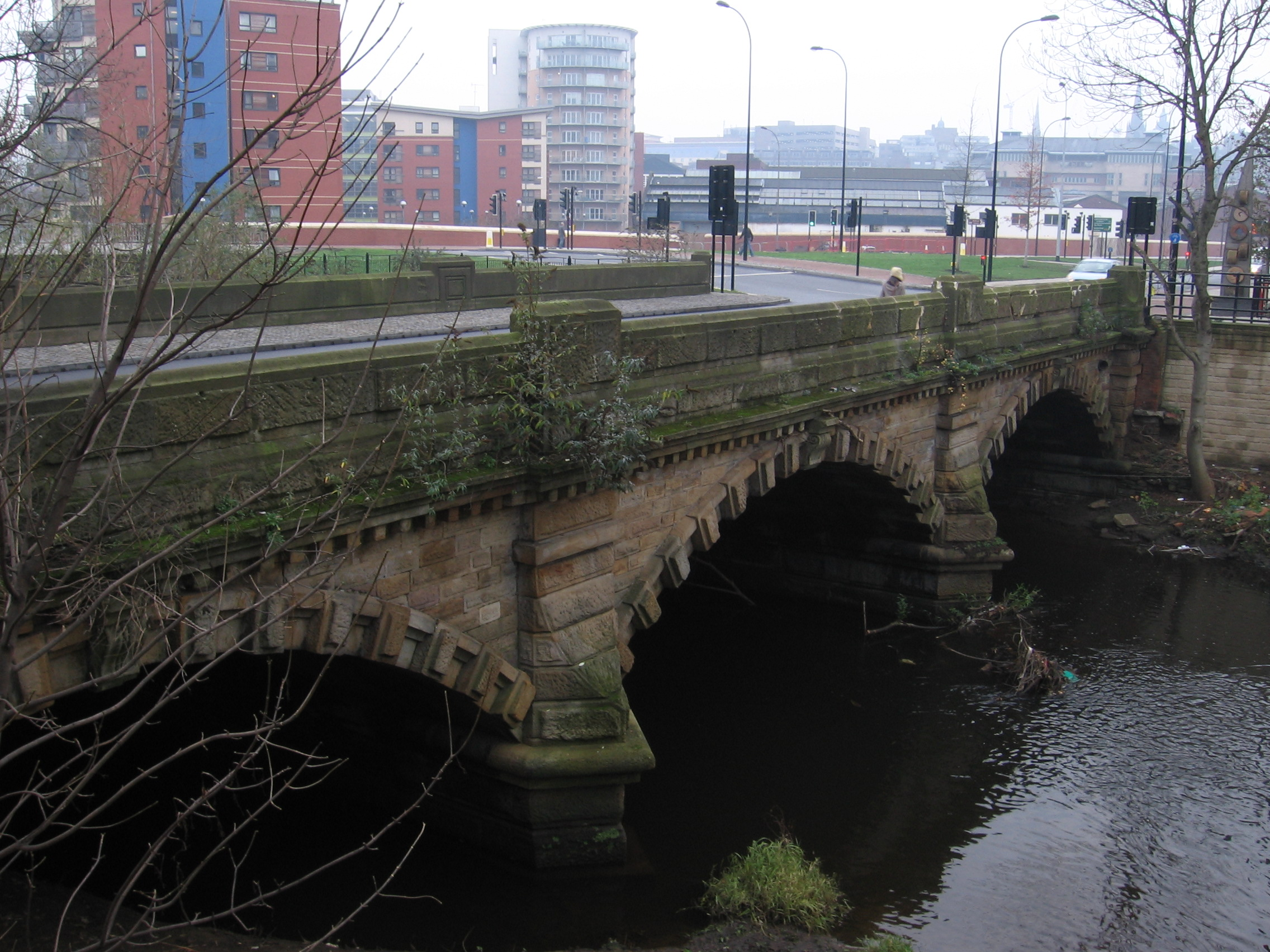 Kelham Island - Borough Bridge